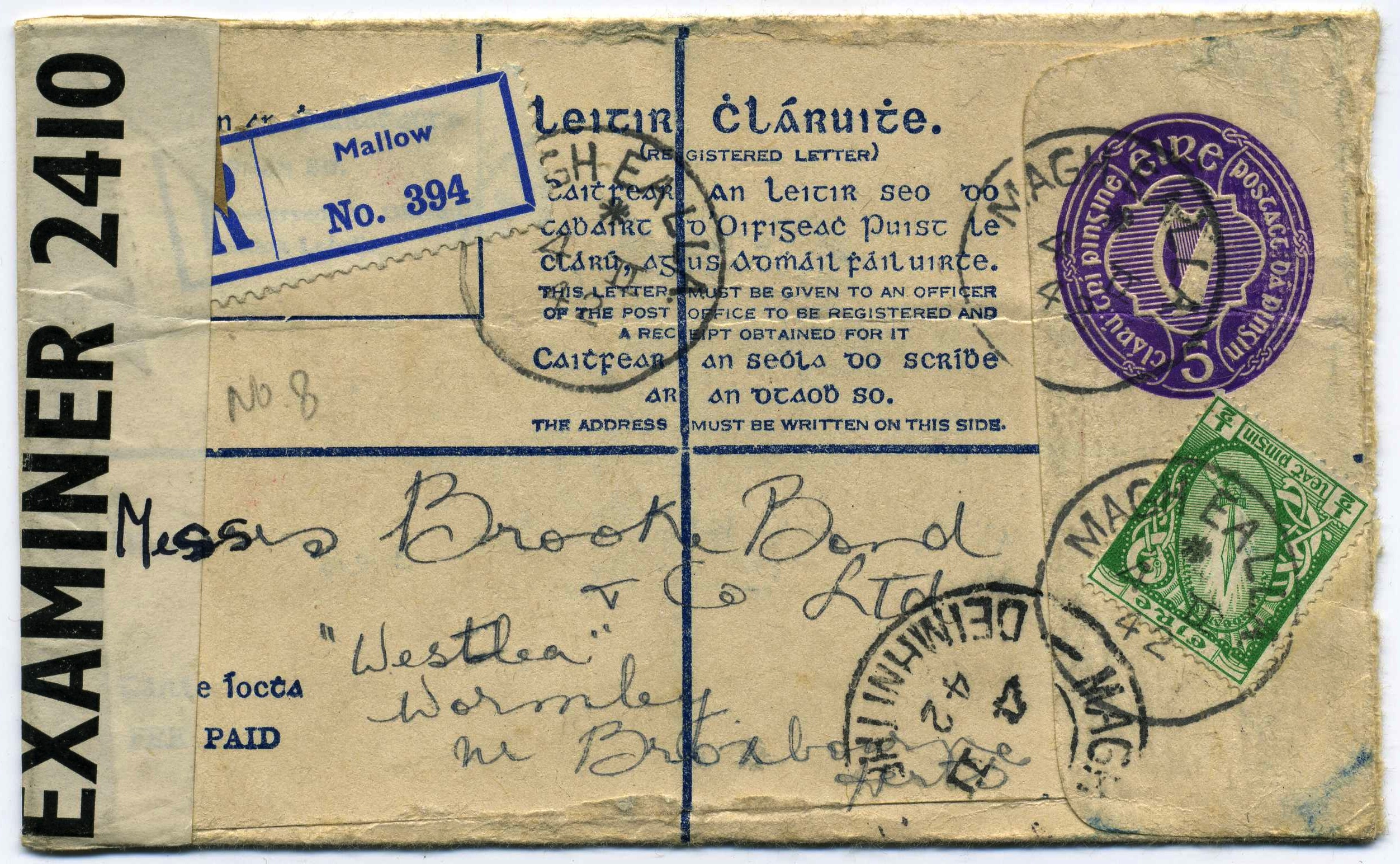 Ireland postal stationery registered enveloped with 5d indicia and additional 1/2d stamp mailed from Mallow to Wormley, Herts, UK in 1942 opened by British censor authorities